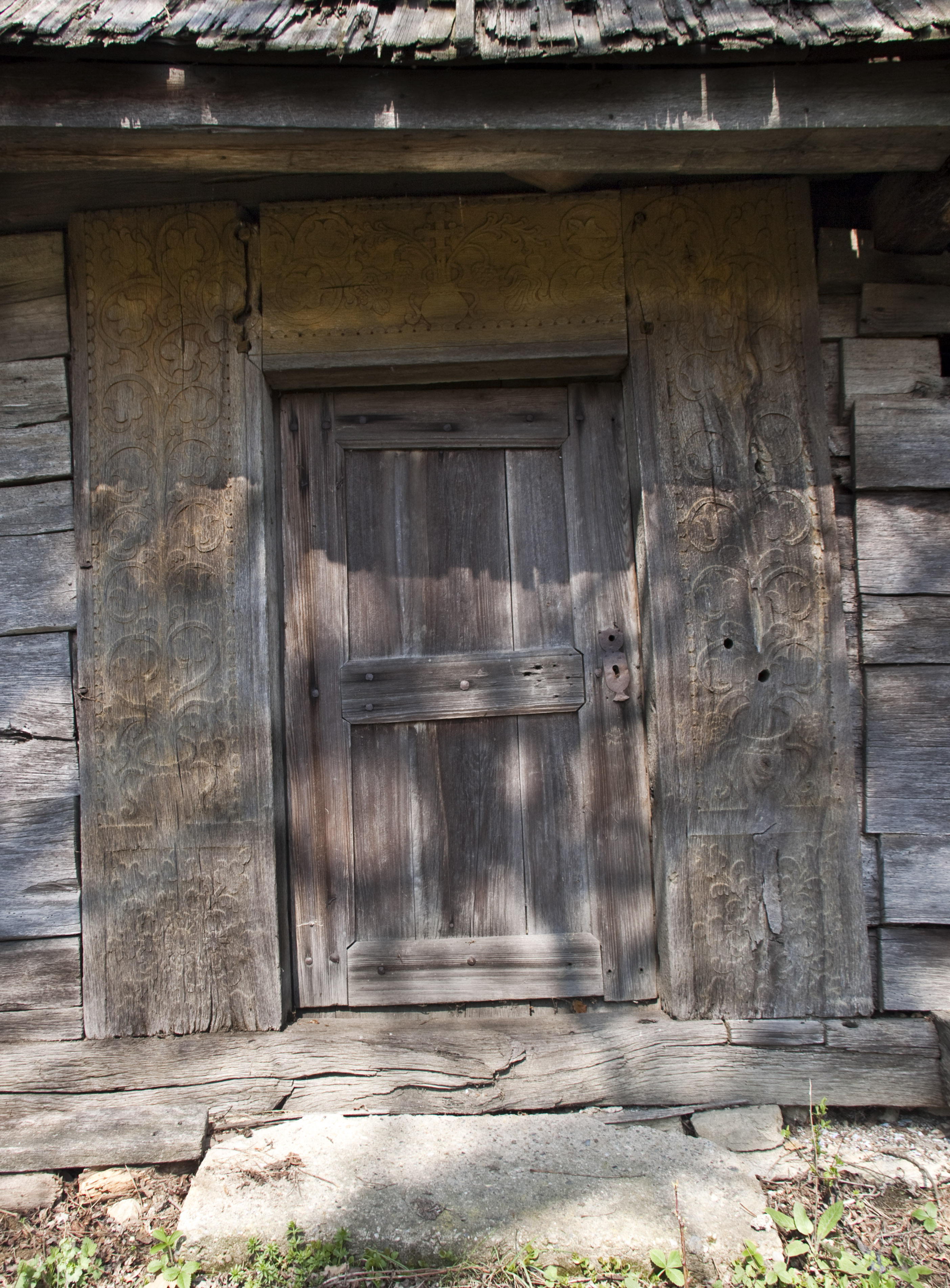 Săliştea Veche, Cluj county, Romania: the wooden church.